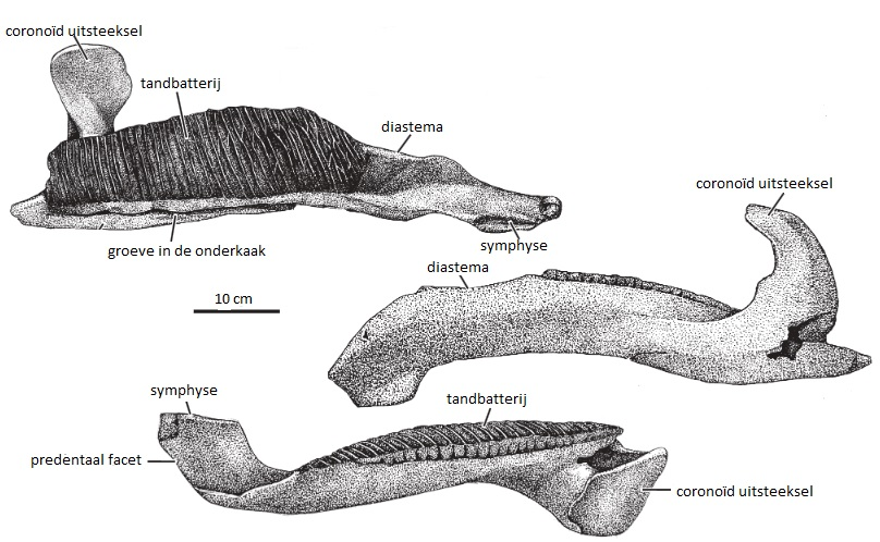 Left dentary of Olorotitan arharensis Godefroit, Bolotsky & Alifanov, 2003 (holotype AEHM 2-845) in medial (above), lateral (middle) and dorsal views. Upper Cretaceous of Kundur, Russia